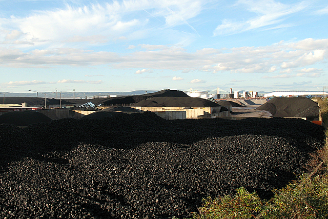 Coal stockpile at Avonmouth docks Lots of coal in the yards adjacent to the Severn Beach railway line near St. Andrew's station.